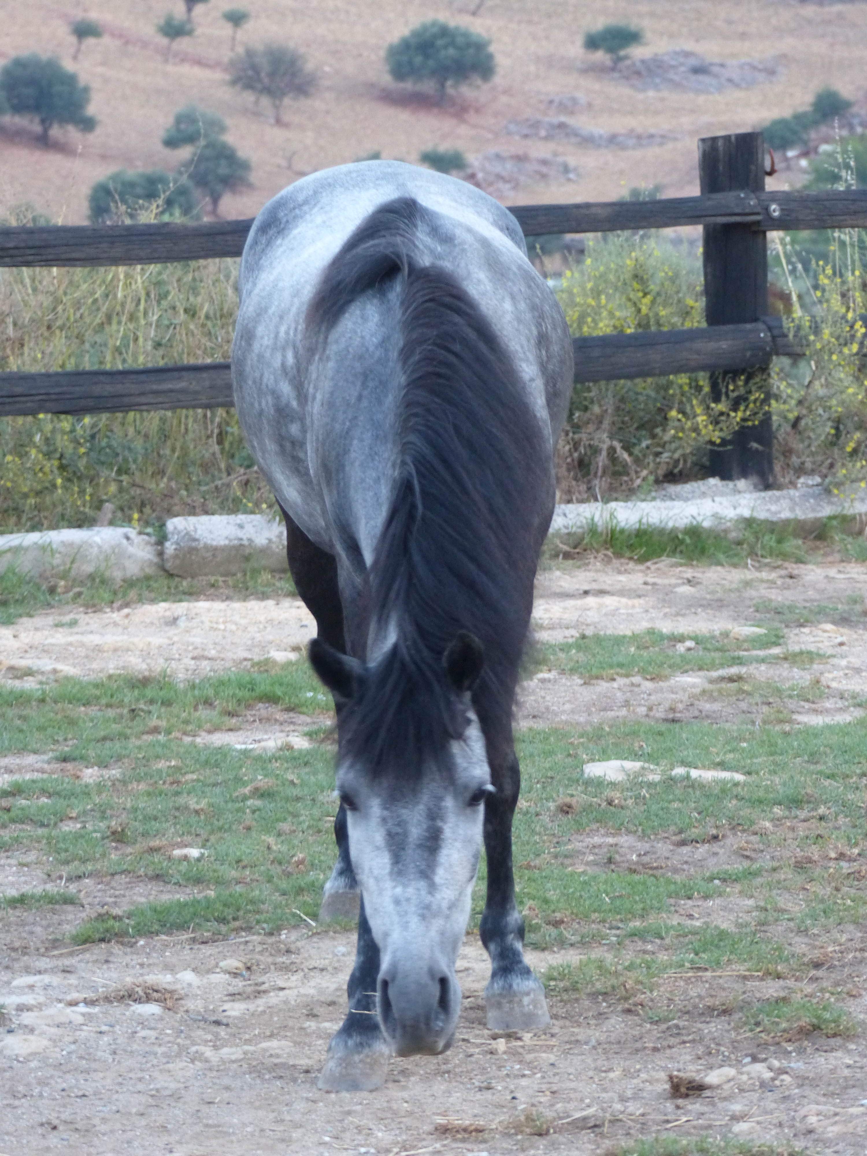 Young Cretan horse at Georgioupoli, Grillos stables